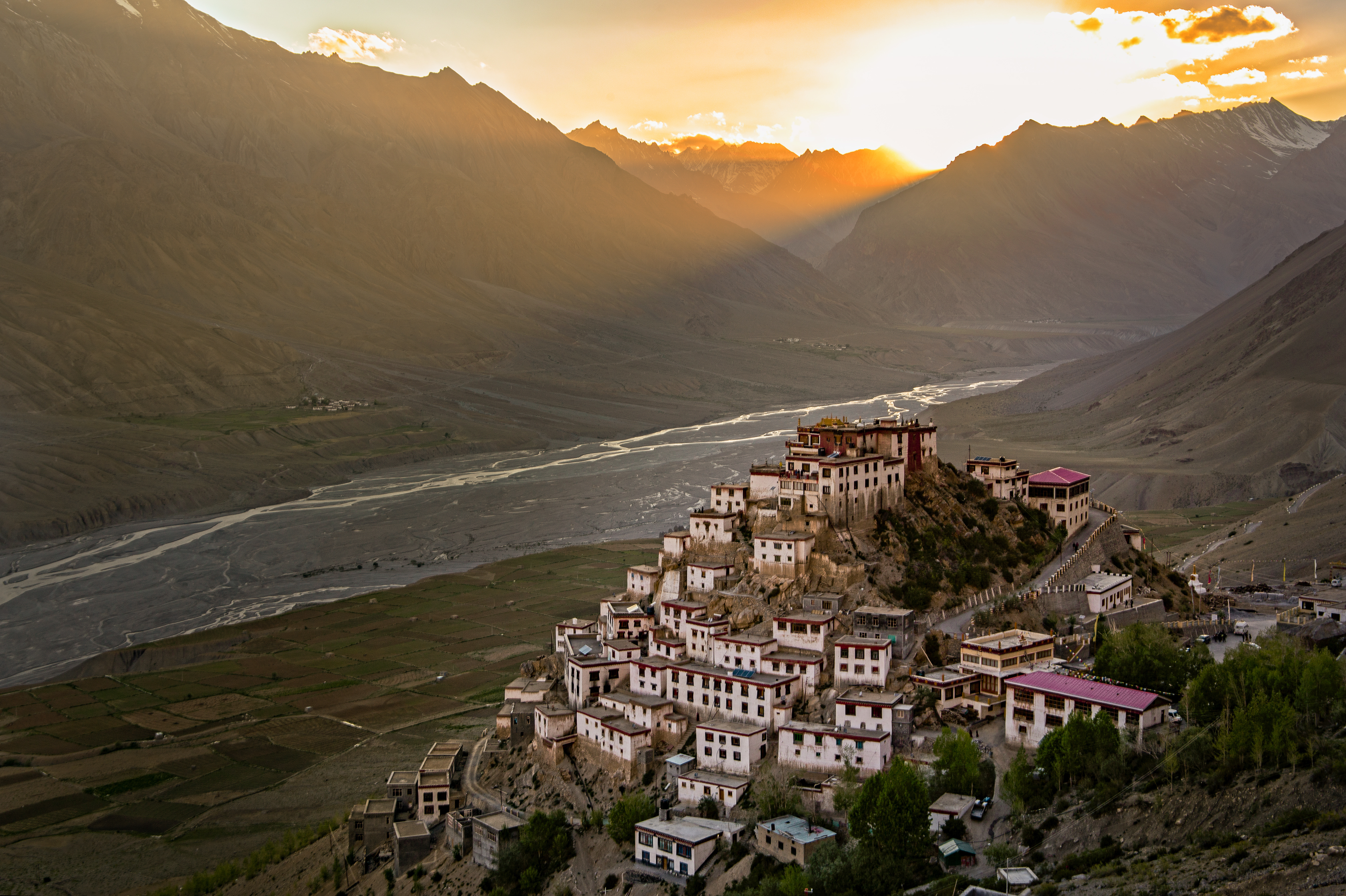 I was bestowed with the beauty at its best. My iris took a little more time to visualise the paradise in front. What was it that made me fall for the beauty. The architecture or the midst of the beautiful nature where I was lost.The altitude of 4166 metres above sea level made me witness the goosebumps. The Buddhist monastery on the top of the hill mesmerised me with its viewFor every picture has a story to tell.1000years old monastery ,Trek during the sunset , mind blown view. That cold which was hard to survive but the view gave the strength to live and capture this beautiful moment.